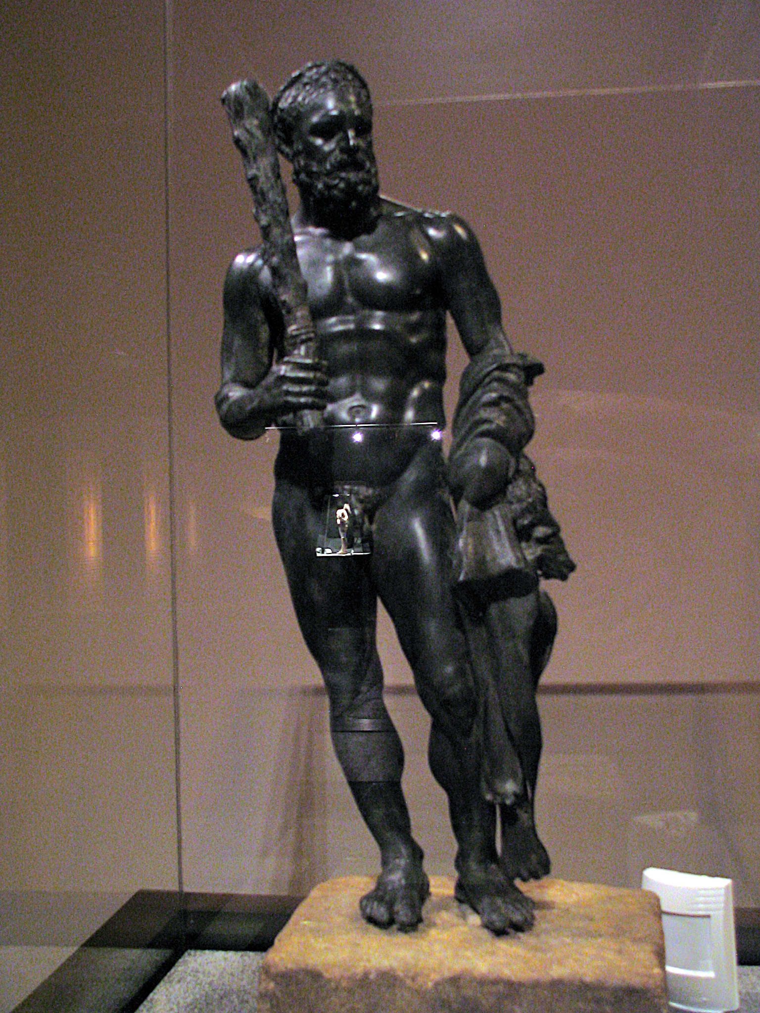 Heracles, Archeological museum Alanya, Turkey.